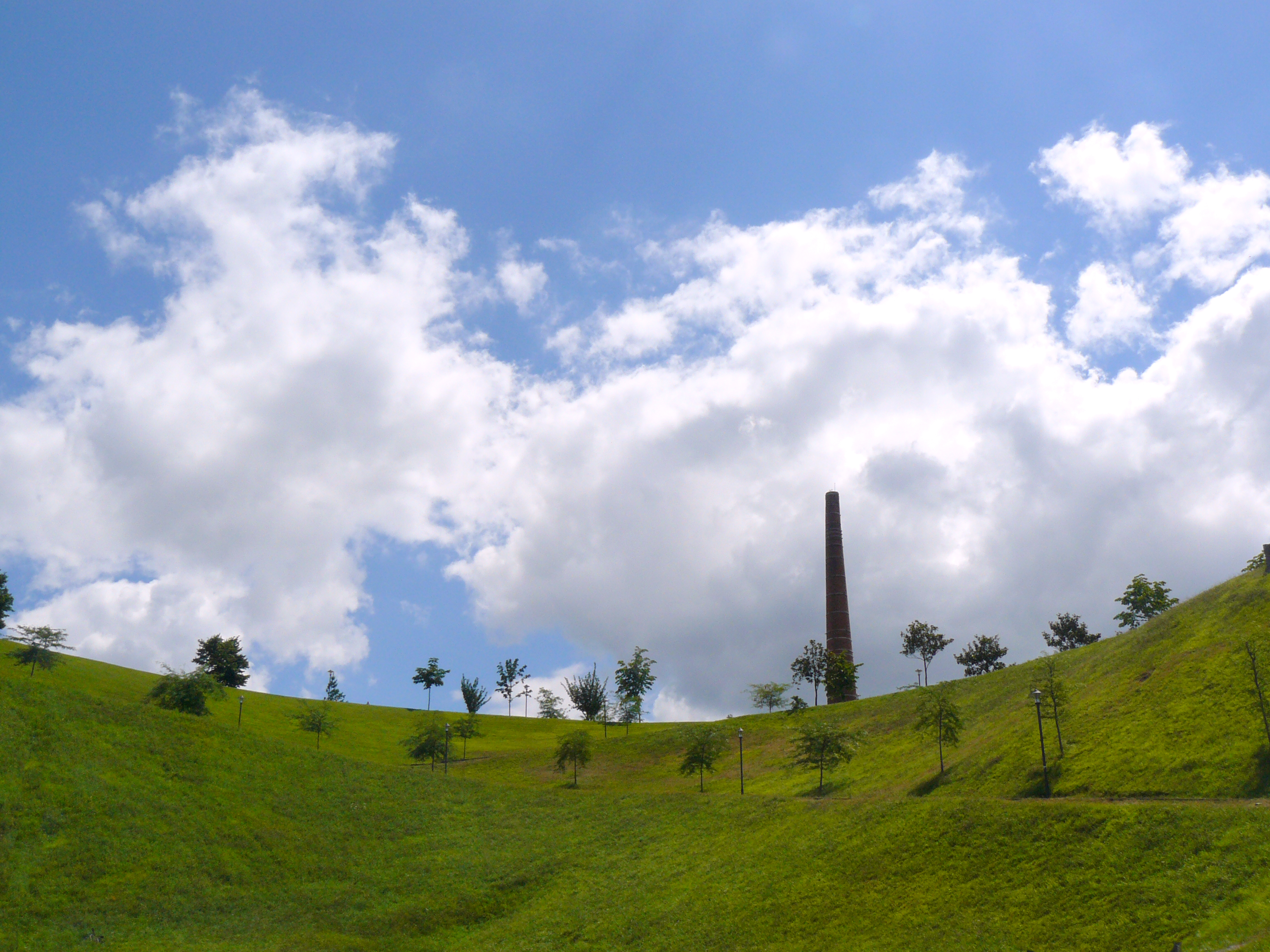 Etxebarria Park, Bilbao, Spain.